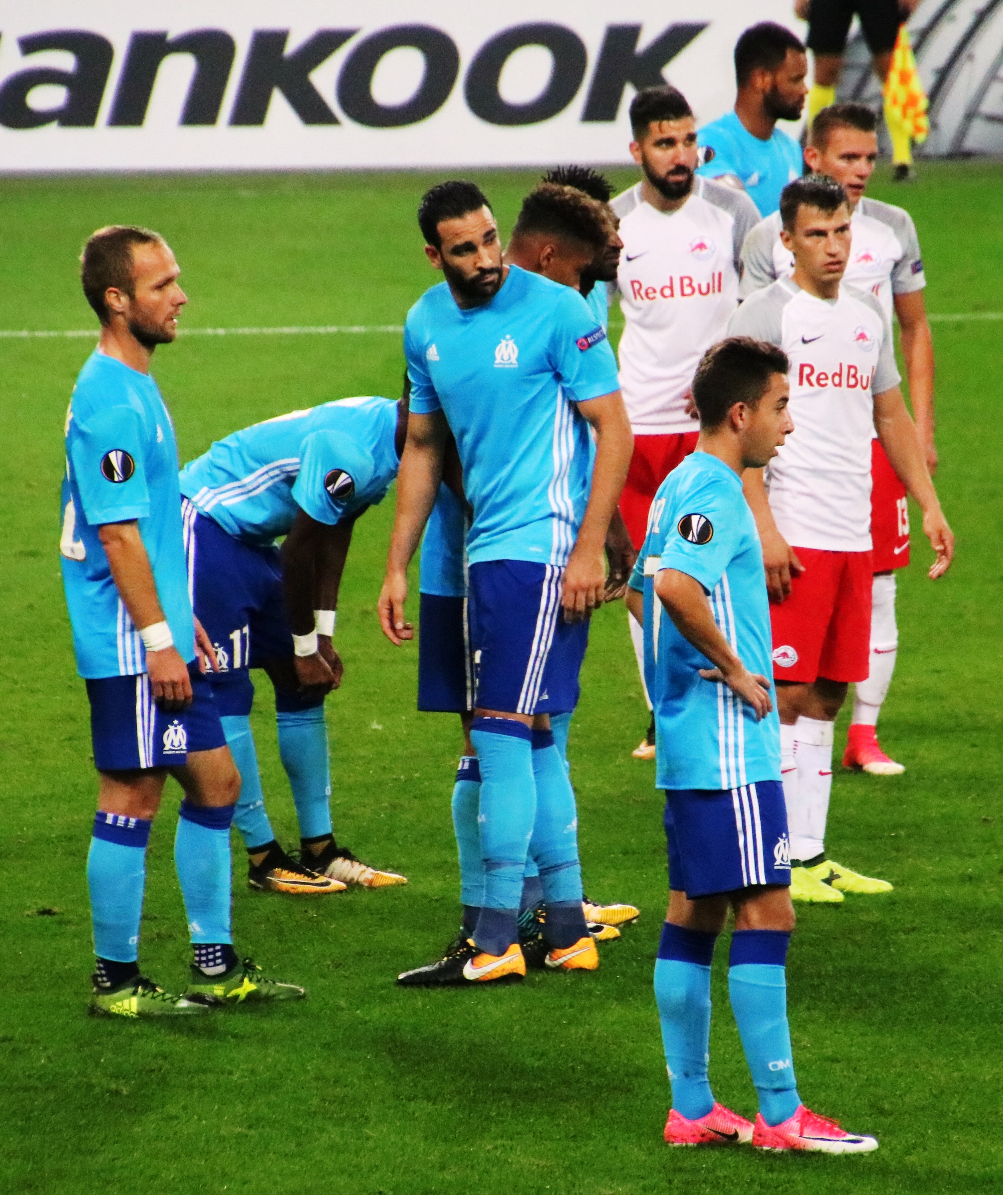 UEFA Euroleage group stage 2nd round